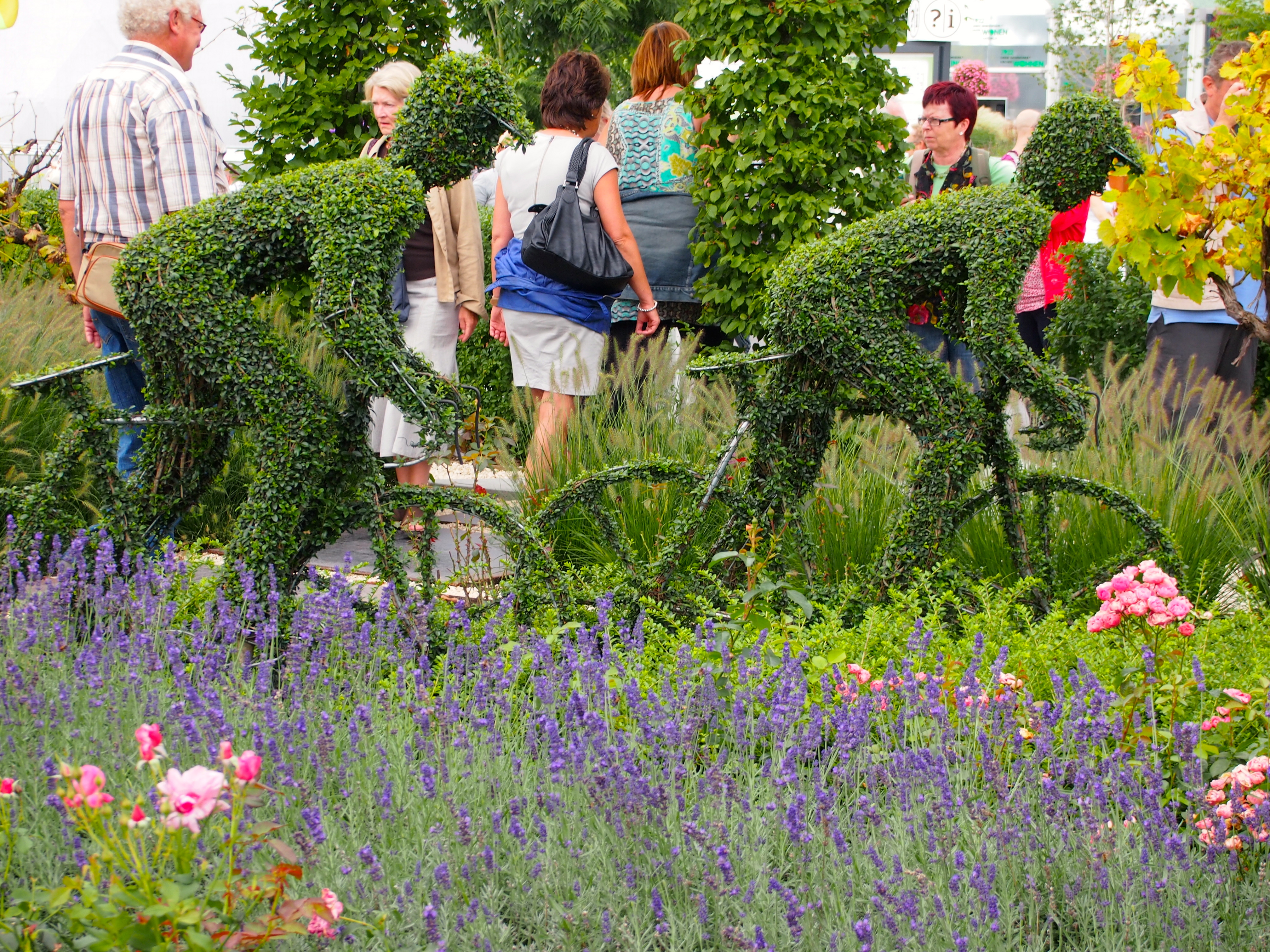 Floriade 2012, Venlo, augustus